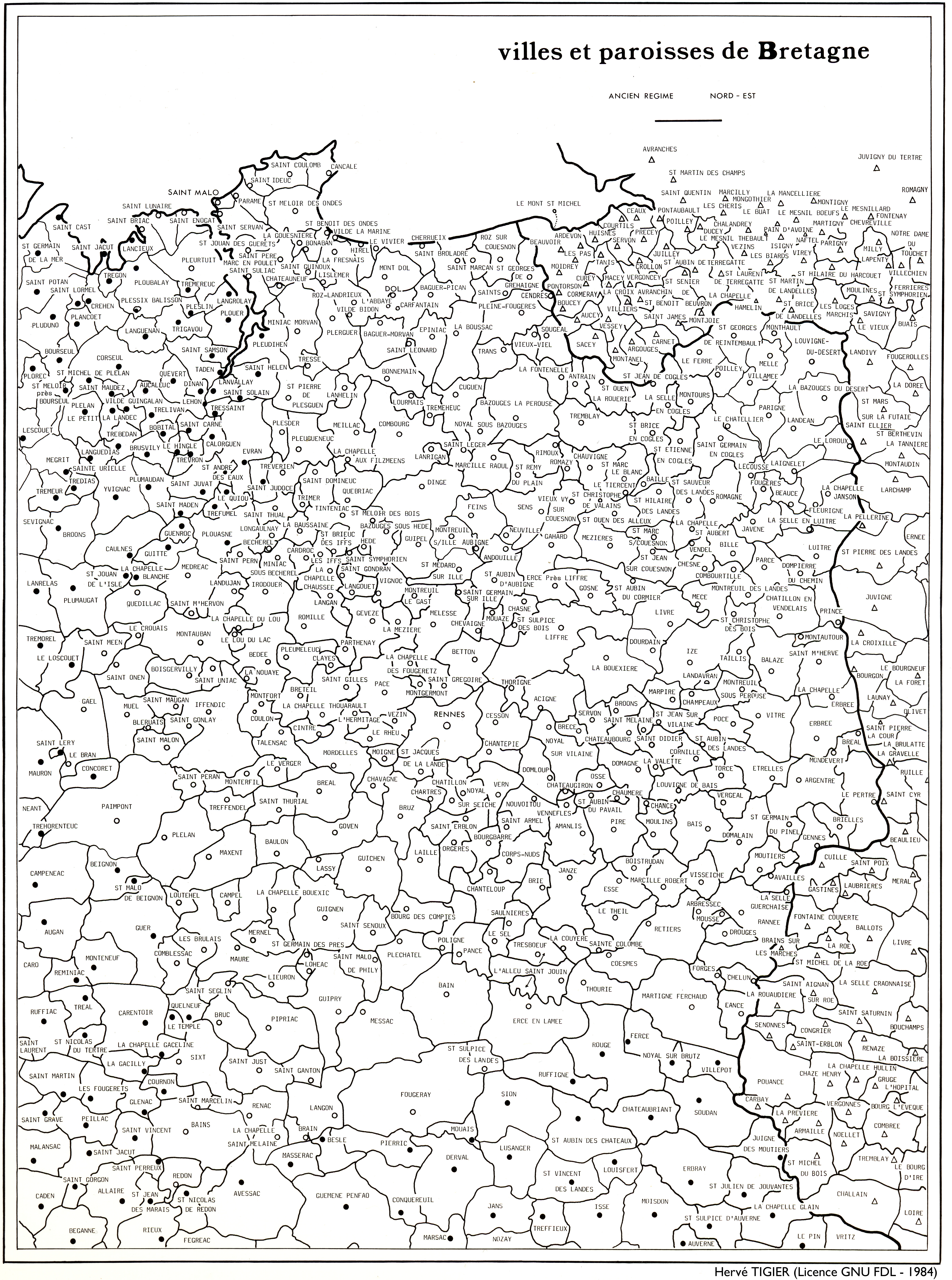 Map of Ille-et-Vilaine before the Revolution and the departments !